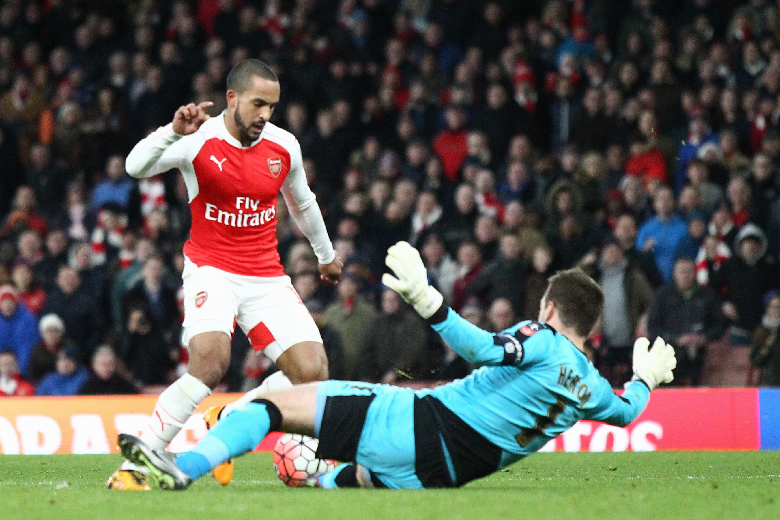 Theo Walcott of Arsenal on the ball during the game against Burnley.